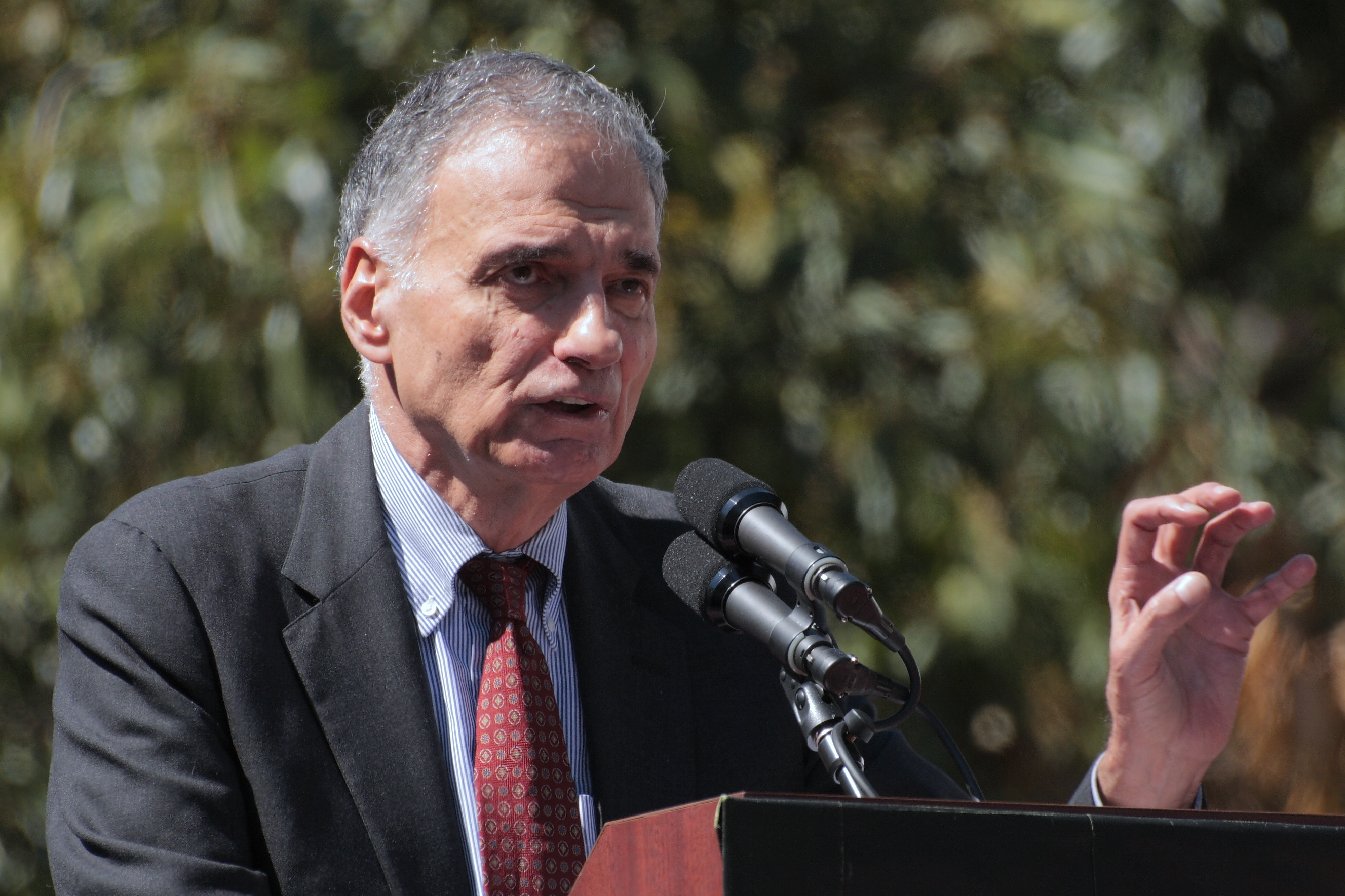 Ralph Nader speaking in front of the White House at the September 15, 2007 protest against the Iraq War. The full speech (ca. 10 minutes) was broadcasted on C-SPAN on September 16, 2007.